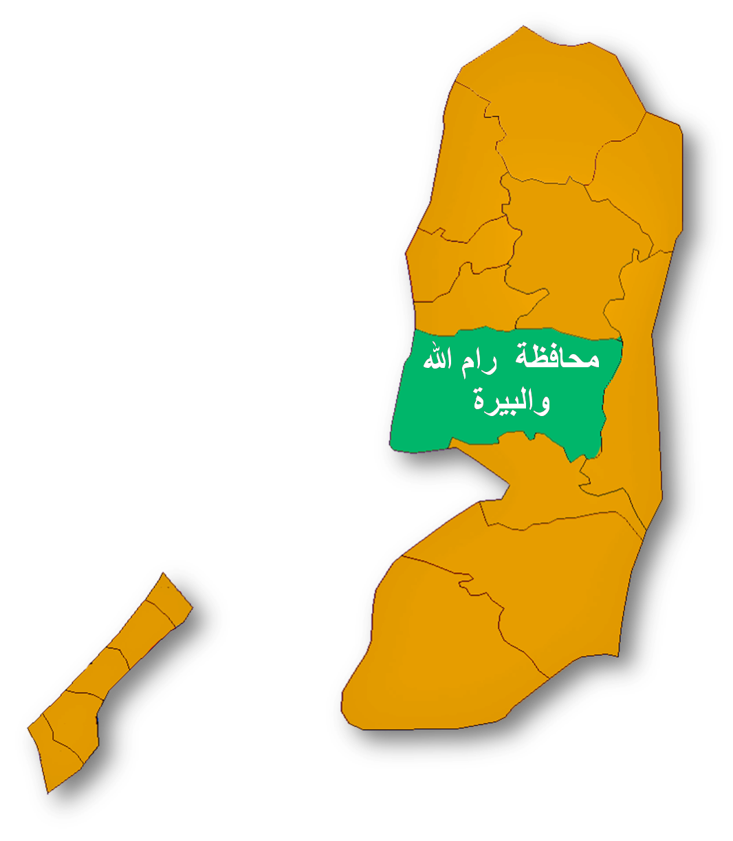 Map of the Palestinian Authorities showing the Governate of Ramallah and el_Beireh